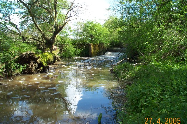 Weir on Cobbin's Brook